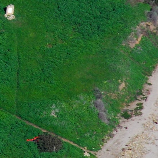 The Shalawa Meadow archaeological site — aerial view. The seaside meadow was used in ancient times as a burial site by the Chumash people. Located near the Coast Village district of Montecito, south of and near Santa Barbara, California.